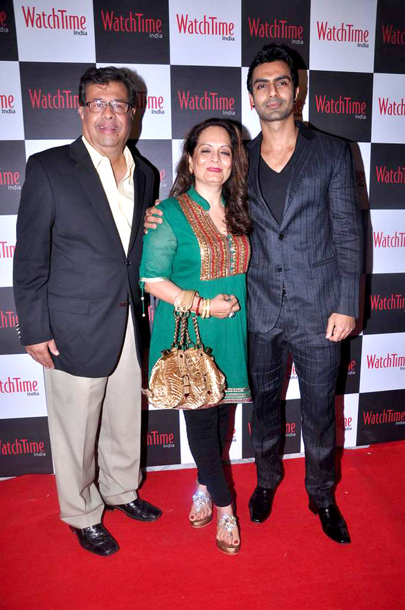 Ashmit Patel at the launch of Watch Time's magazine